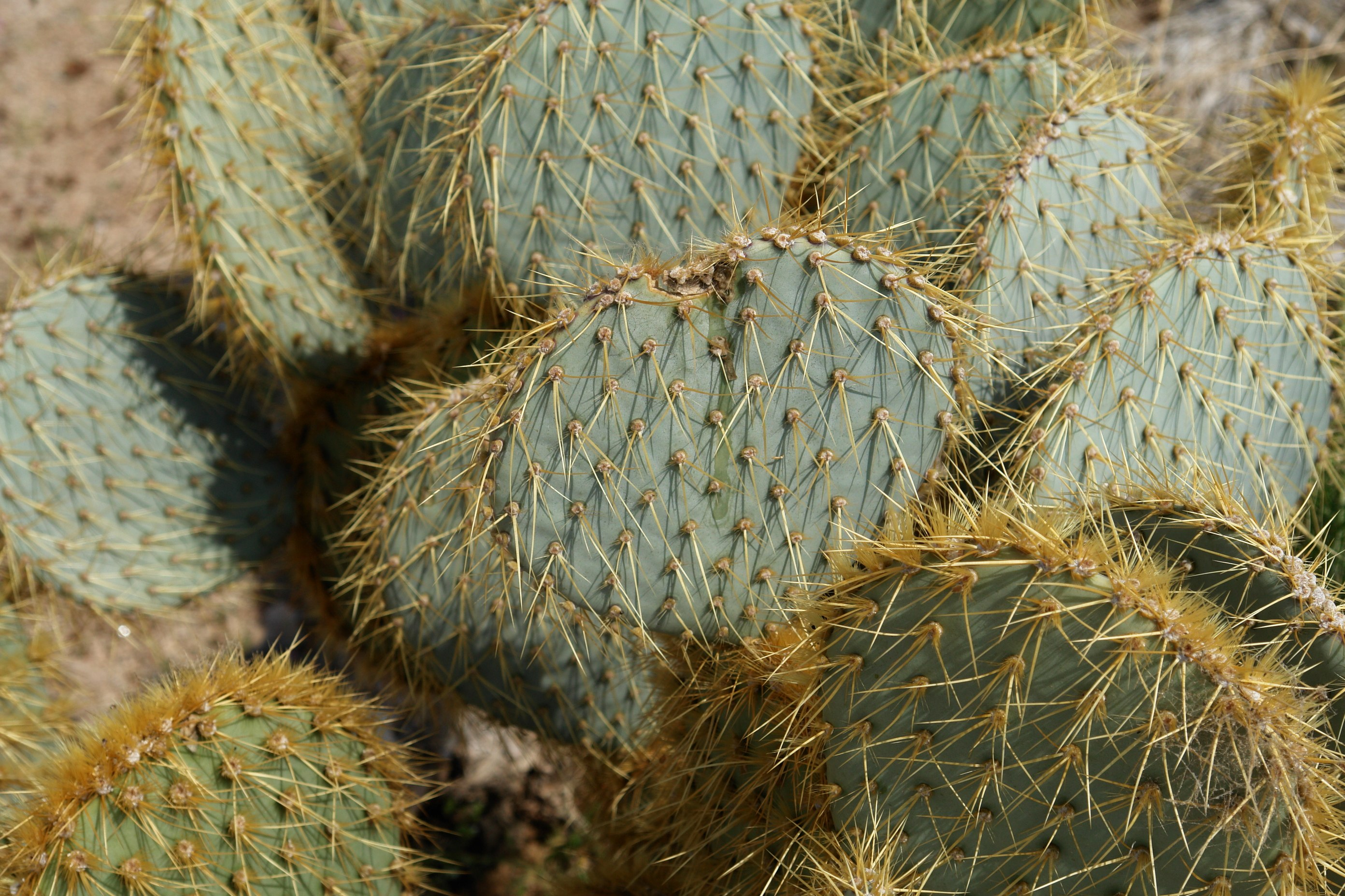 Cactus in Joshua Tree National Park